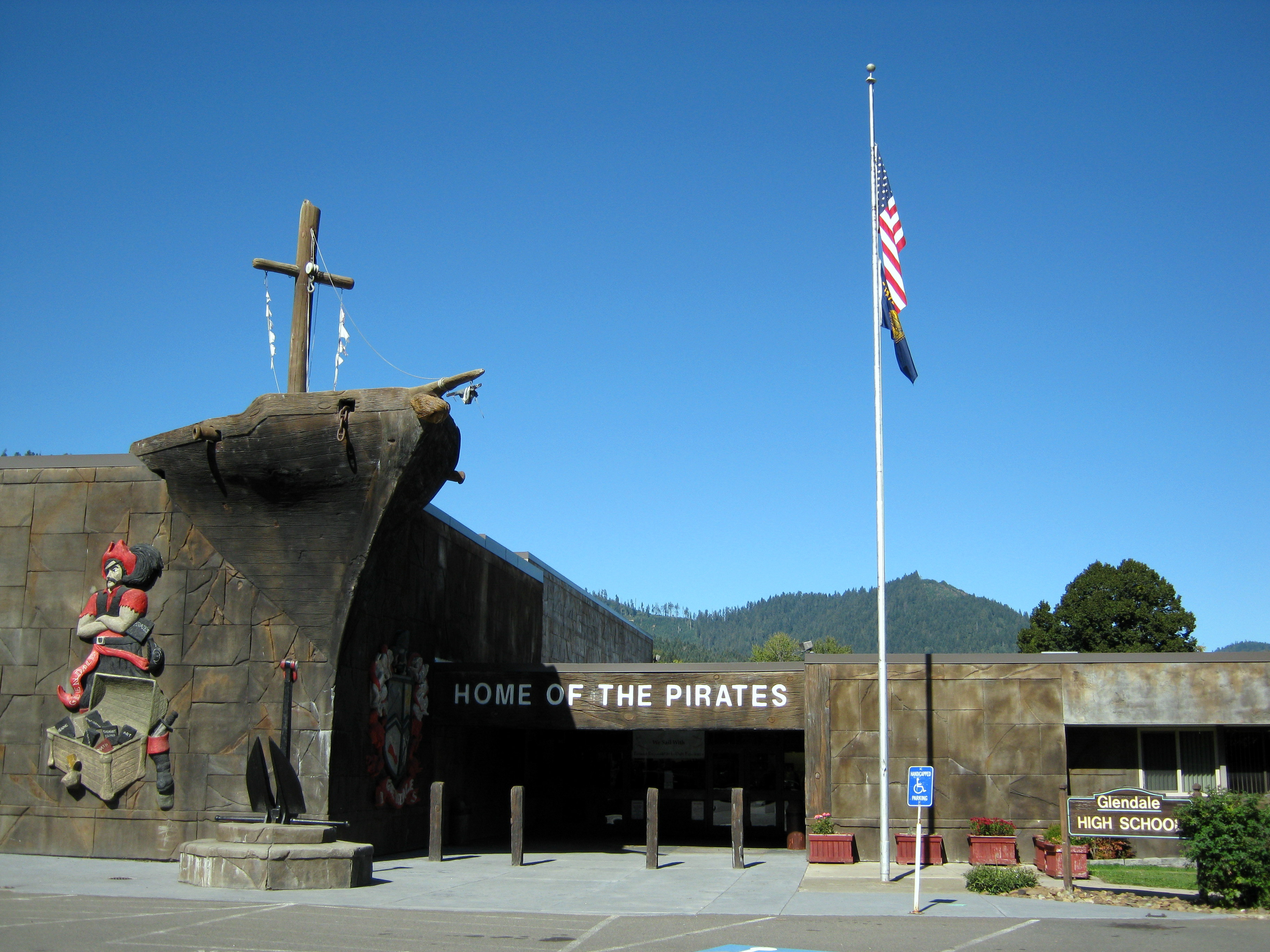 Entrance to Glendale Jr/Sr High School in Glendale, Oregon.